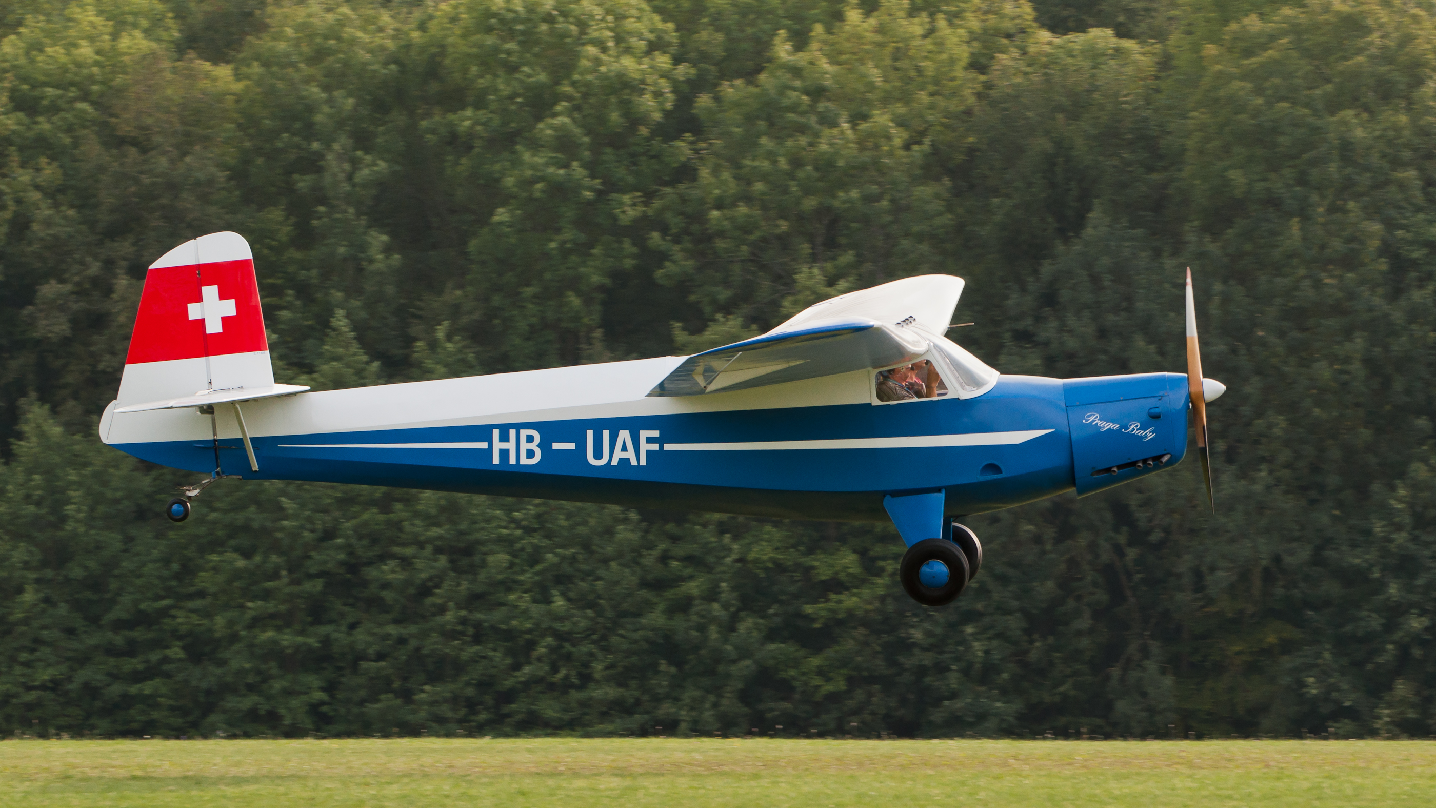 Praga E-114M Air Baby (reg. HB-UAF, cn 119, built in 1947). Engine: Walter Mikron III.